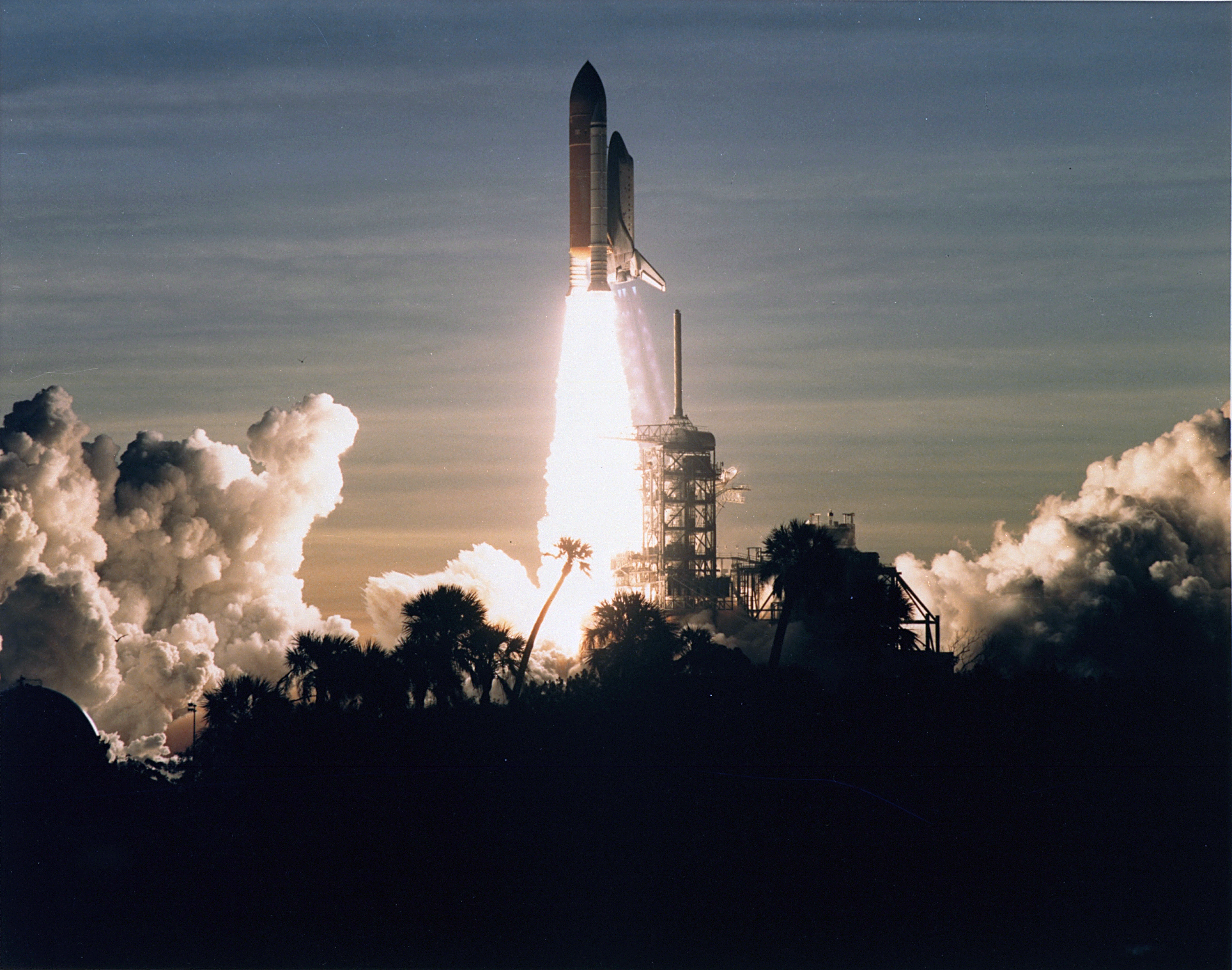 A golden new era in space cooperation begins with a flawless countdown and the ontime liftoff of the Space Shuttle Discovery on Mission STS-60. Liftoff from Launch Pad 39A occurred at 7:10:01 a.m., EST. The first Shuttle mission of 1994 carries the first Russian cosmonaut, Sergei K. Krikalev, to fly on the Space Shuttle. The veteran space traveler joins astronauts N. Jan Davis and Ronald M. Sega, mission specialists; Franklin R. Chang-Diaz, payload commander: Kenneth S. Reightler, pilot; and Charles F. Bolden Jr., mission commander, on an eight day journey. Primary payloads of the 60th Space Shuttle flight are the SPACEHAB-2 laboratory and the Wake Shield Facility.